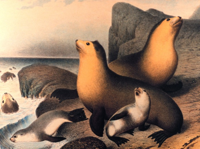 Southern Fur Seals (Arctocephalus gazella) on New Amsterdam Island in the Indian Ocean.